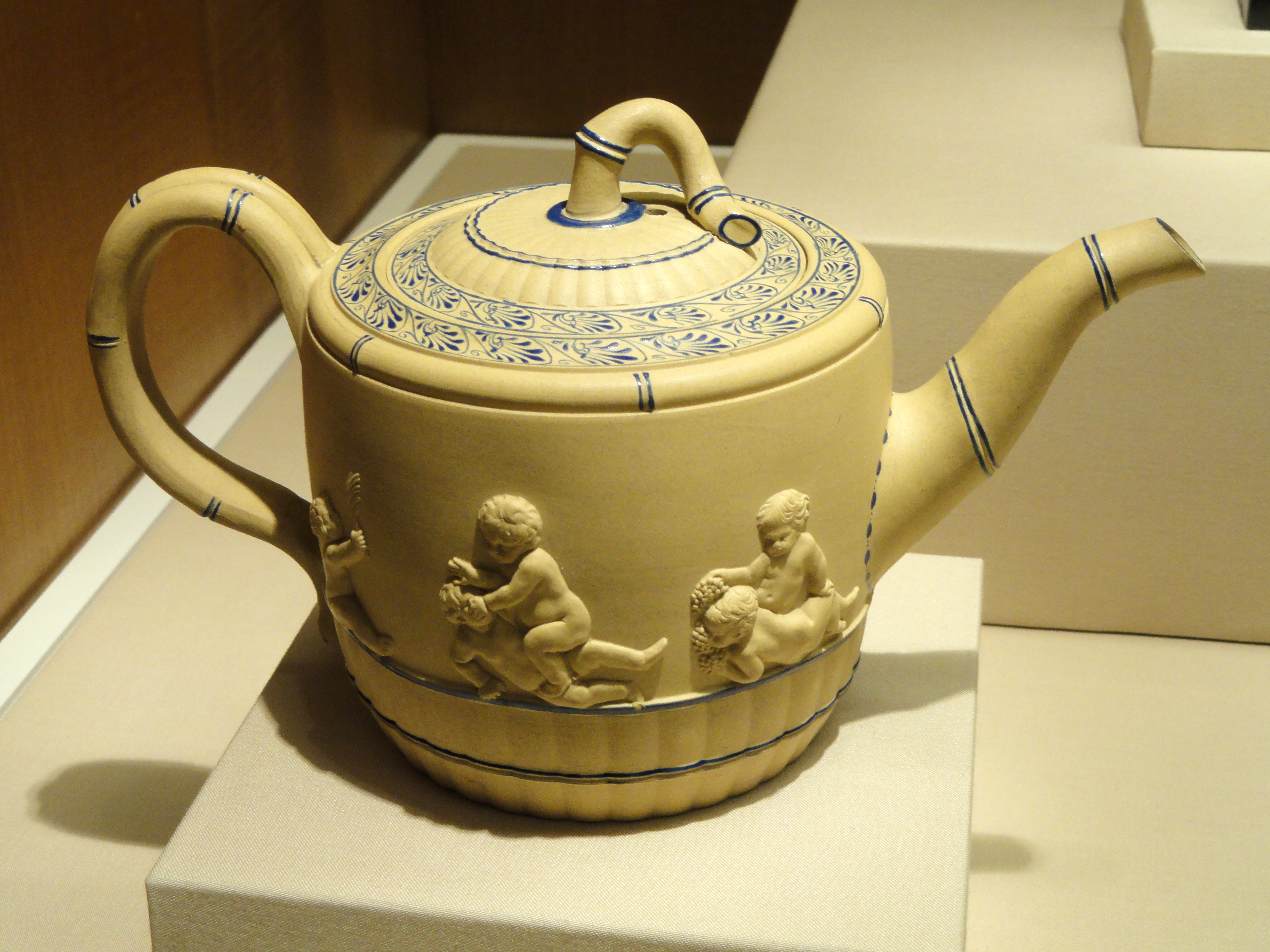 Exhibit in the Nelson-Atkins Museum of Art, Kansas City, Missouri, USA. ; I took this photograph and release it into the public domain.